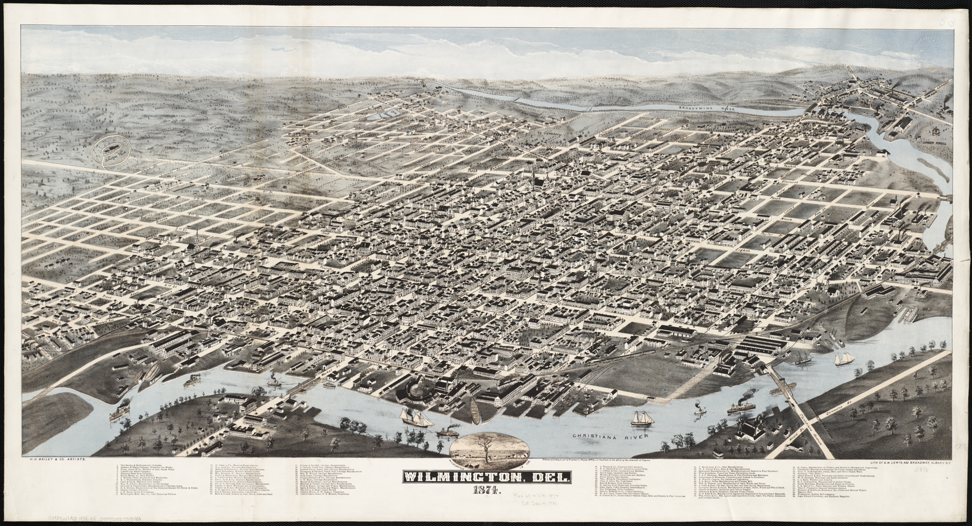 Zoom into this map at . Author: H.H. Bailey & Co. Publisher: [J.C. Harkness] Date: c1874 Location: Wilmington (Del.) Scale: Not drawn to scale. Call Number: G3834.W7A3 1874.H4